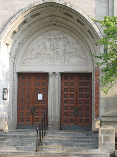 Doors to the institute taken by me. ( The sculpture in the tympanum is by Ulric Ellerhusen Carptrash 07:01, 11 March 2007 (UTC) )